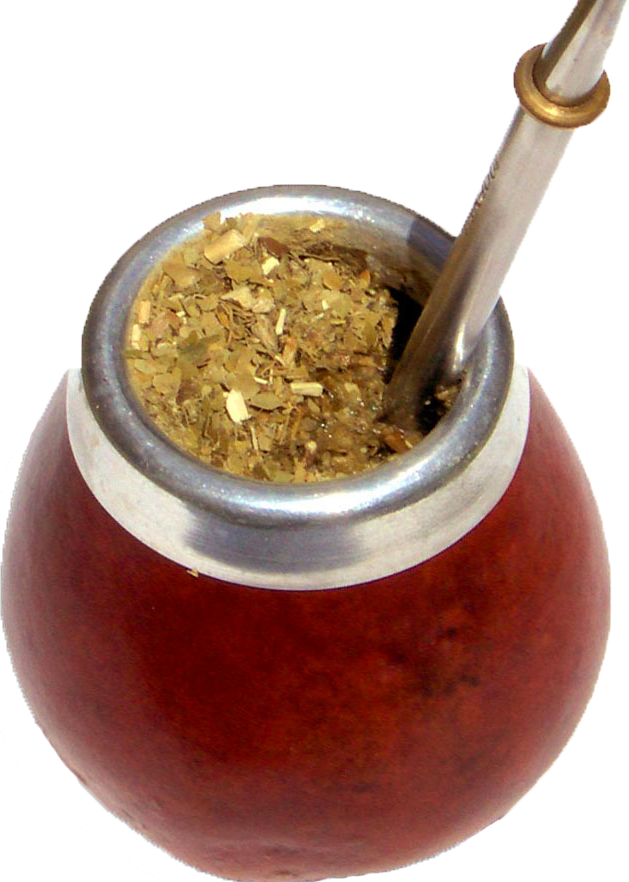 Mate (also known as "Argentinian tea"), on a white background